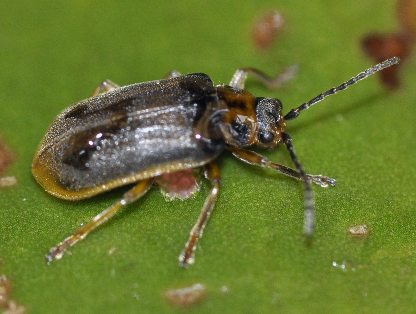 Galerucella nymphaeae (Linnæus, 1758). Germany: Niedersachsen, Klein-Lengden near Göttingen. In a garden habitat.